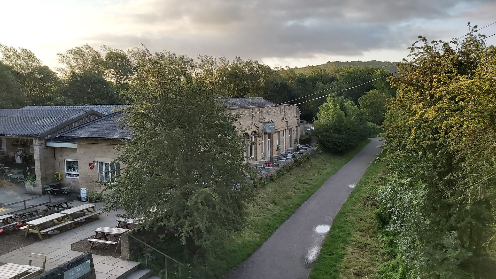 The station at Hassop in 2019, now a cafe and library on the Monsal Trail.